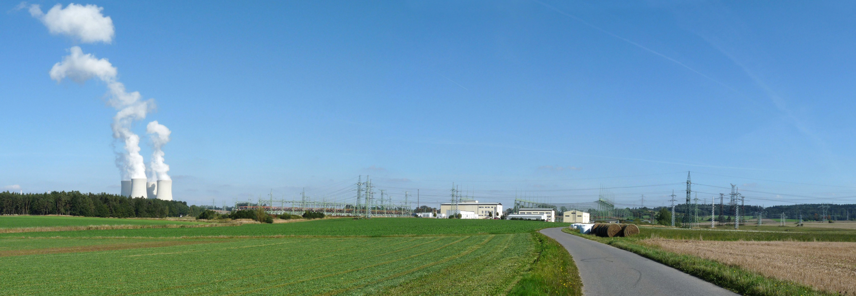 400 kV substation at the village of Kočín, České Budějovice District, South Bohemian Region, Czech Republic.